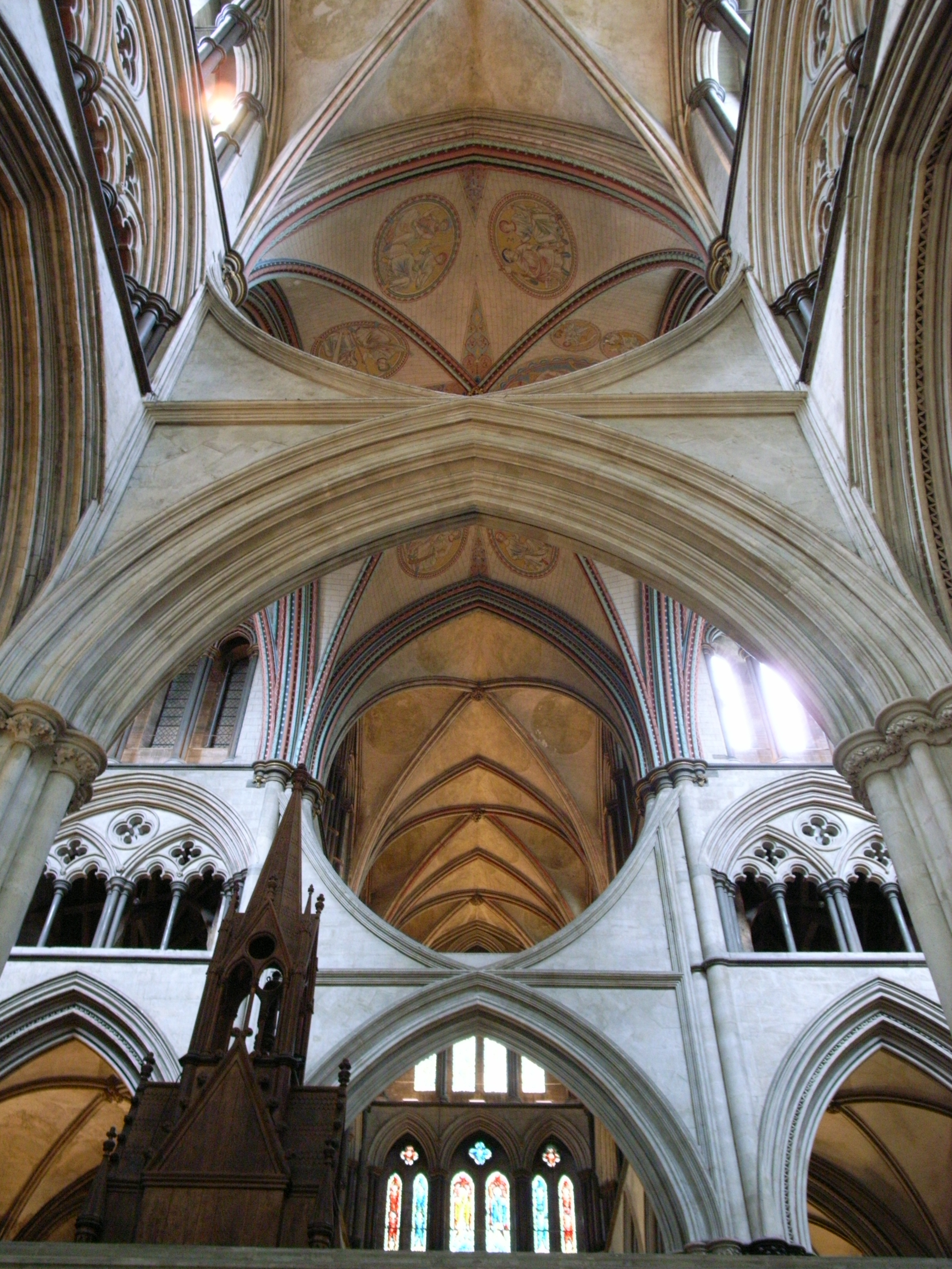 Salisbury Cathedral - the scissor arches inserted behind the crossing tower